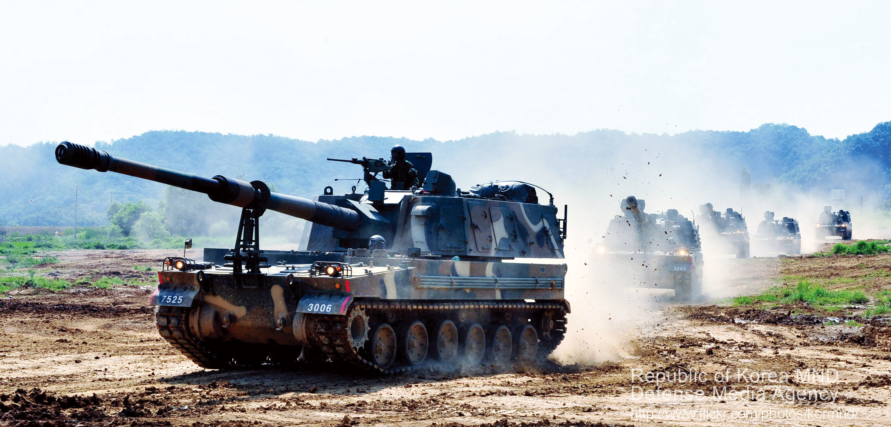 2009 국방화보 Rep. of Korea, Defense Photo Magazine K-9 자주포의 기동 훈련 모습.